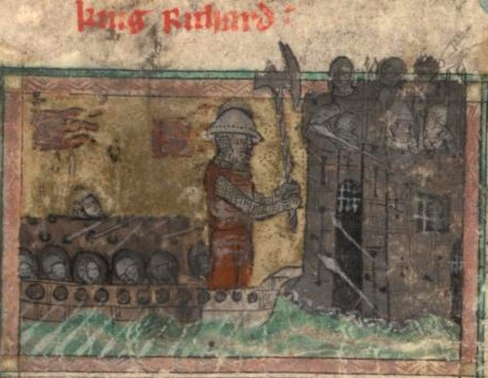 NLS Adv MS 19.2.1 Auchinleck Manuscript 176r.